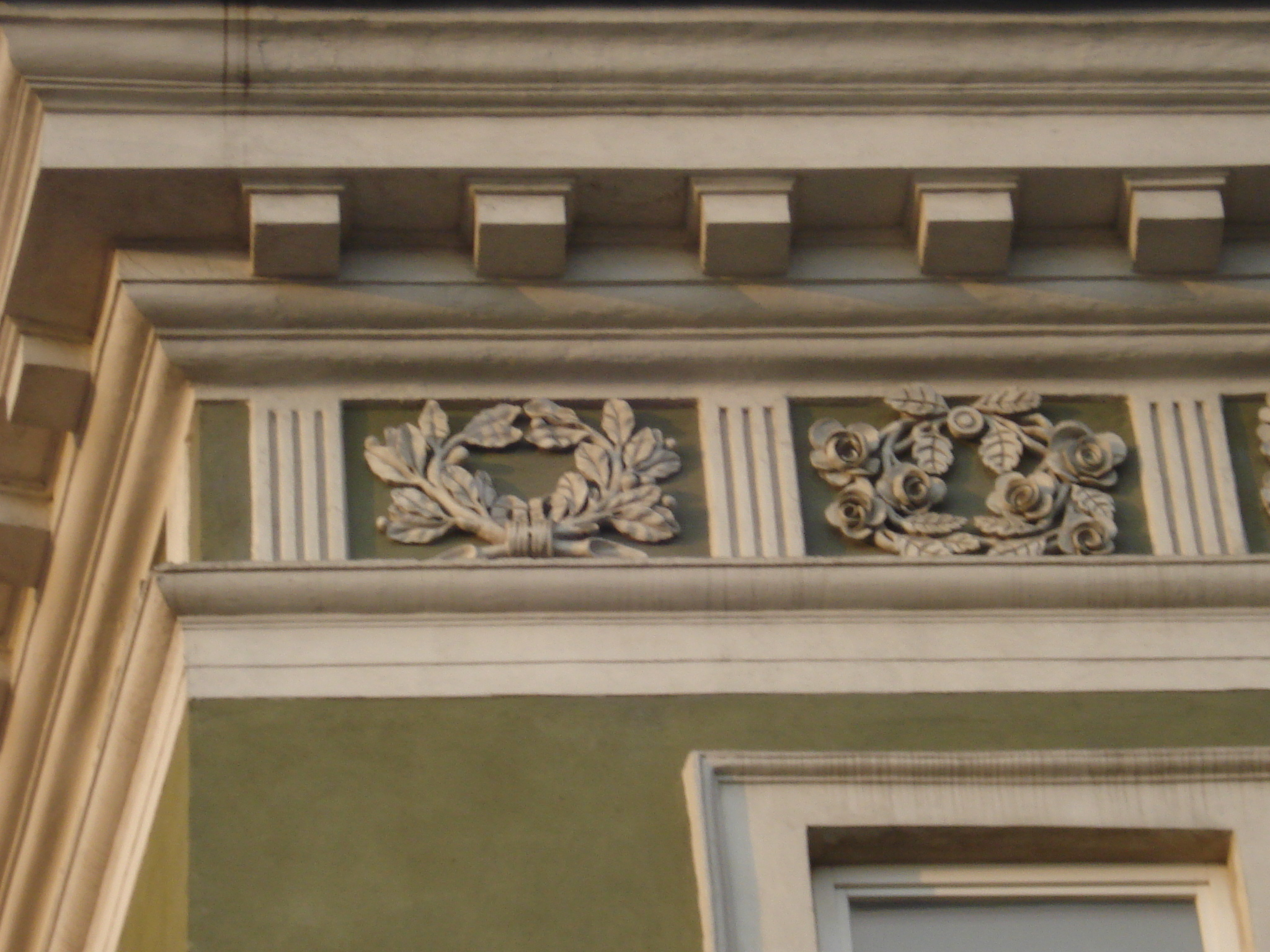 Triglyphs and metopes in the frieze of the house in Vokiečių street in Vilnius (Vokiečių g. 16)